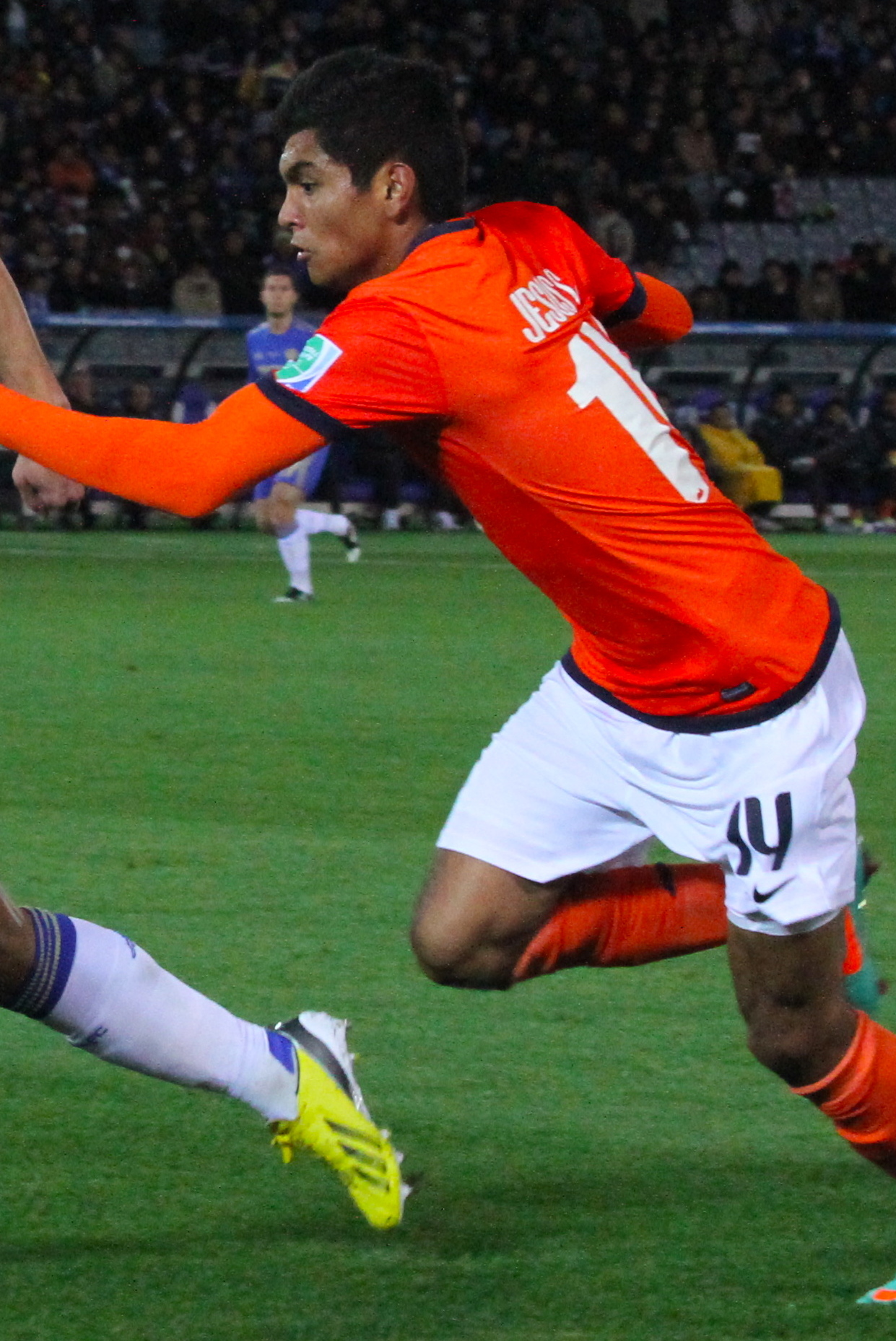 César Azpilicueta of Chelsea defended by Jesús Manuel Corona of Monterrey.